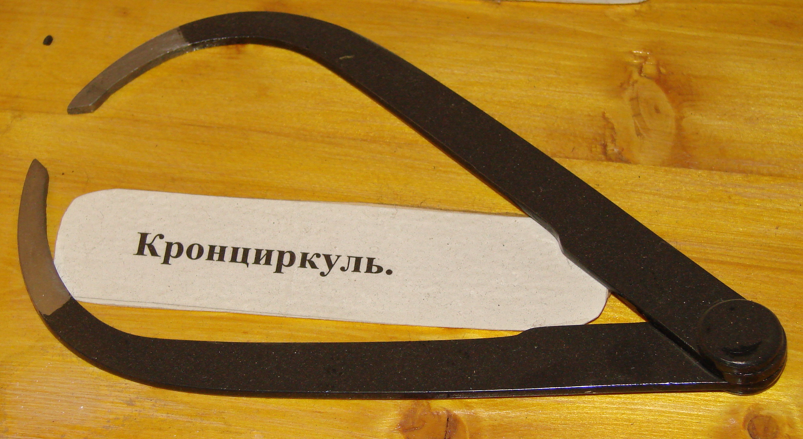 Russia, Vologda, Museum of railway carriage depot